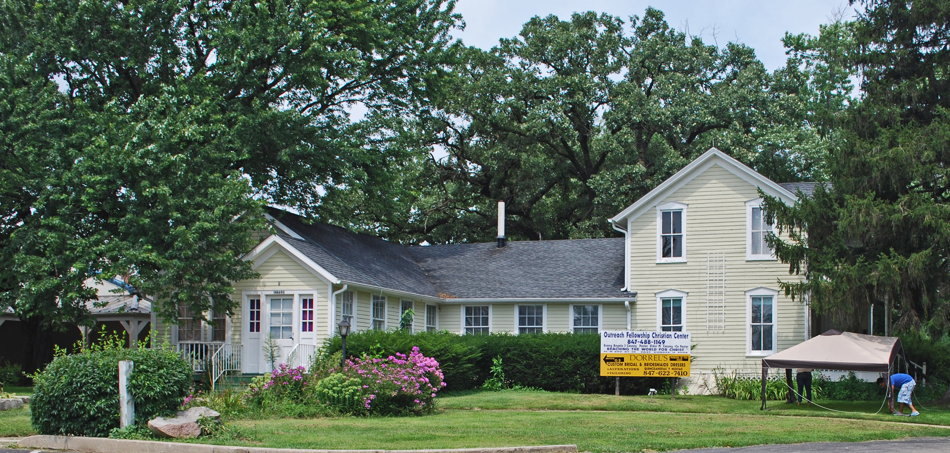 Country Tea Room, East Dundee IL